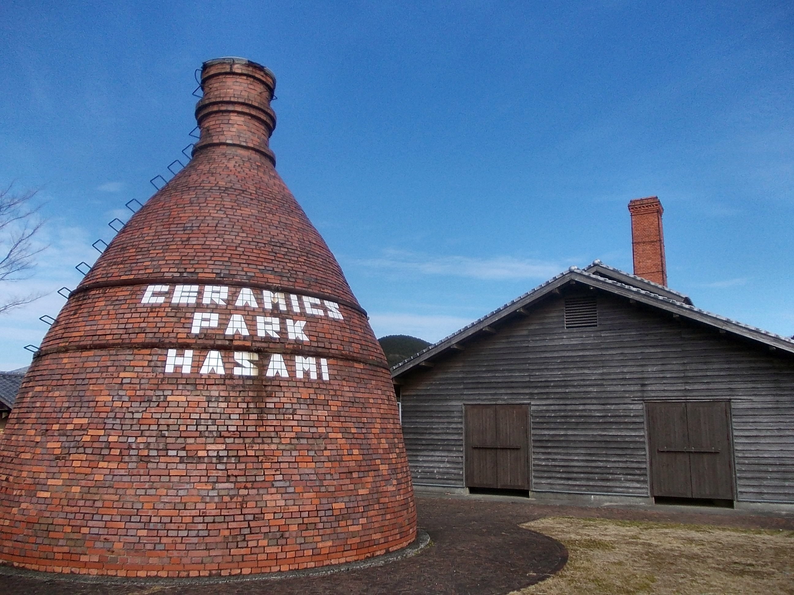 Ceramics Park Hasami